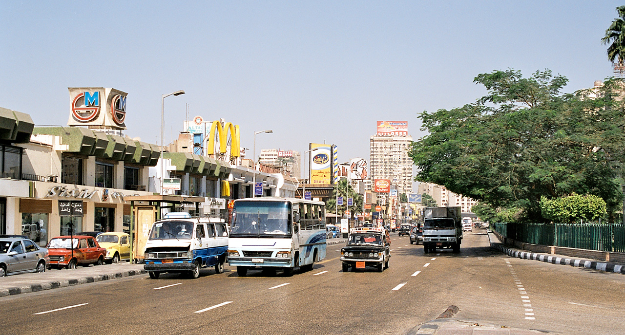 Arab League Street (Gameat el-Dowal el-Arabiya) in Mohandessin, Cairo, Egypt.